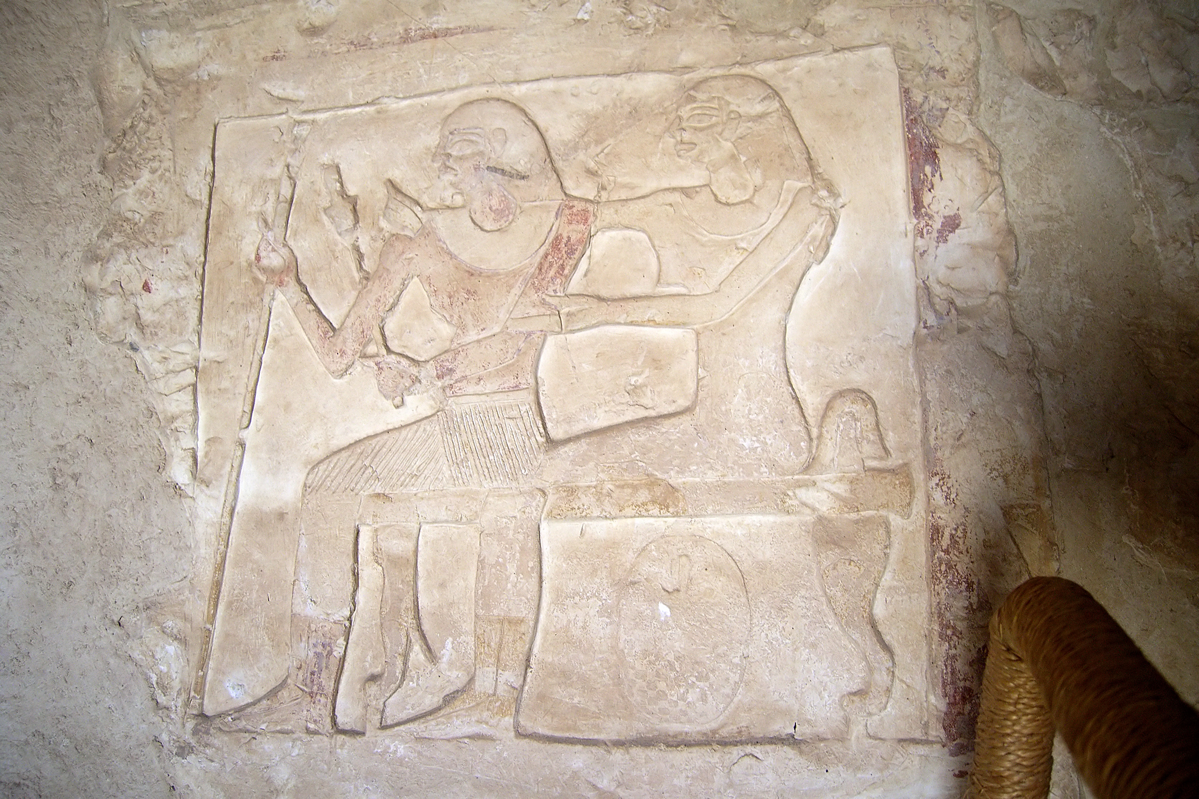 Inside the tomb of Ankhtifi, el-Mo'alla, Egypt